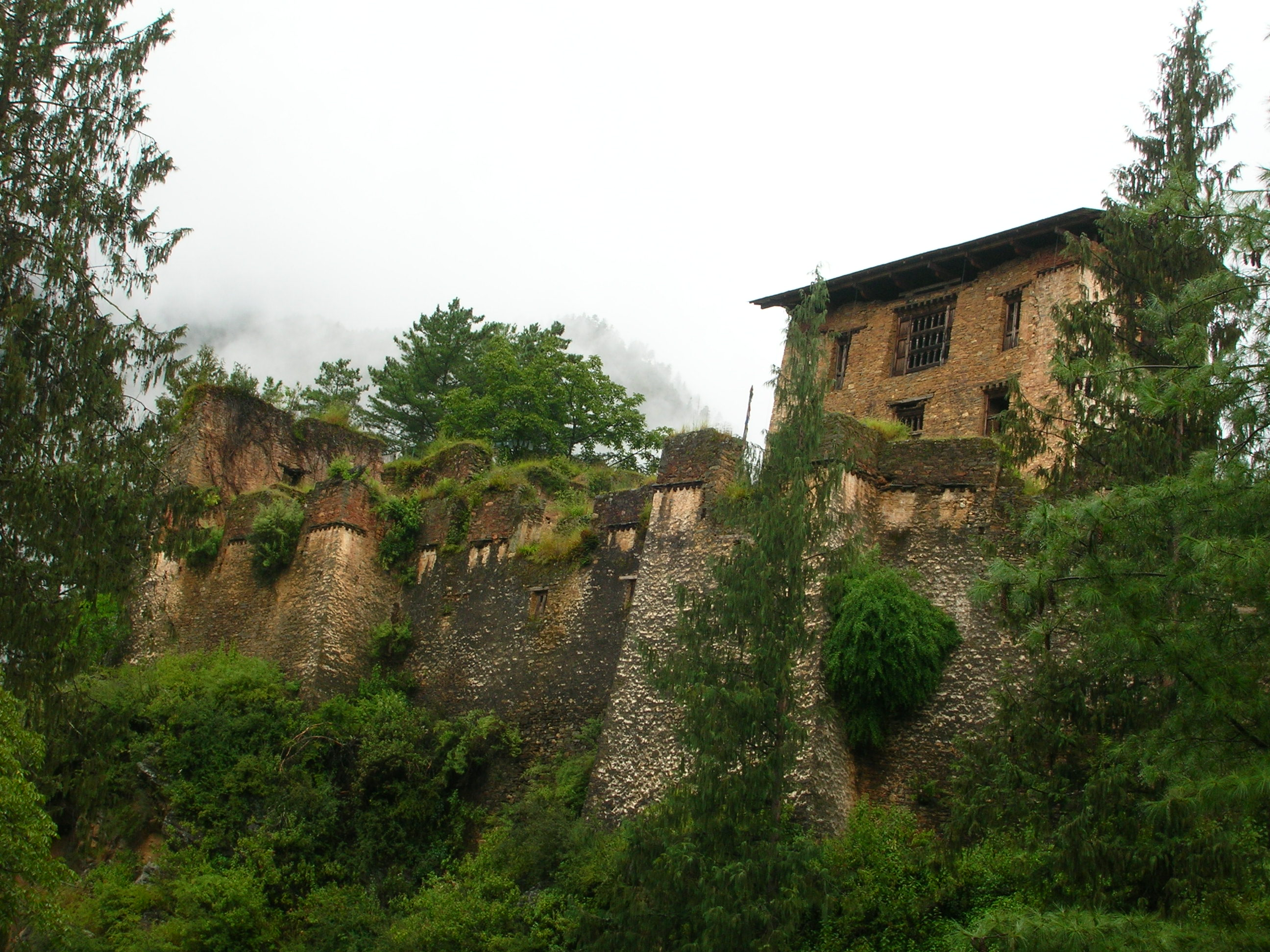 Drukgyel Dzong(WT-shared) Pradyot 02:03, 1 October 2009 (EDT).